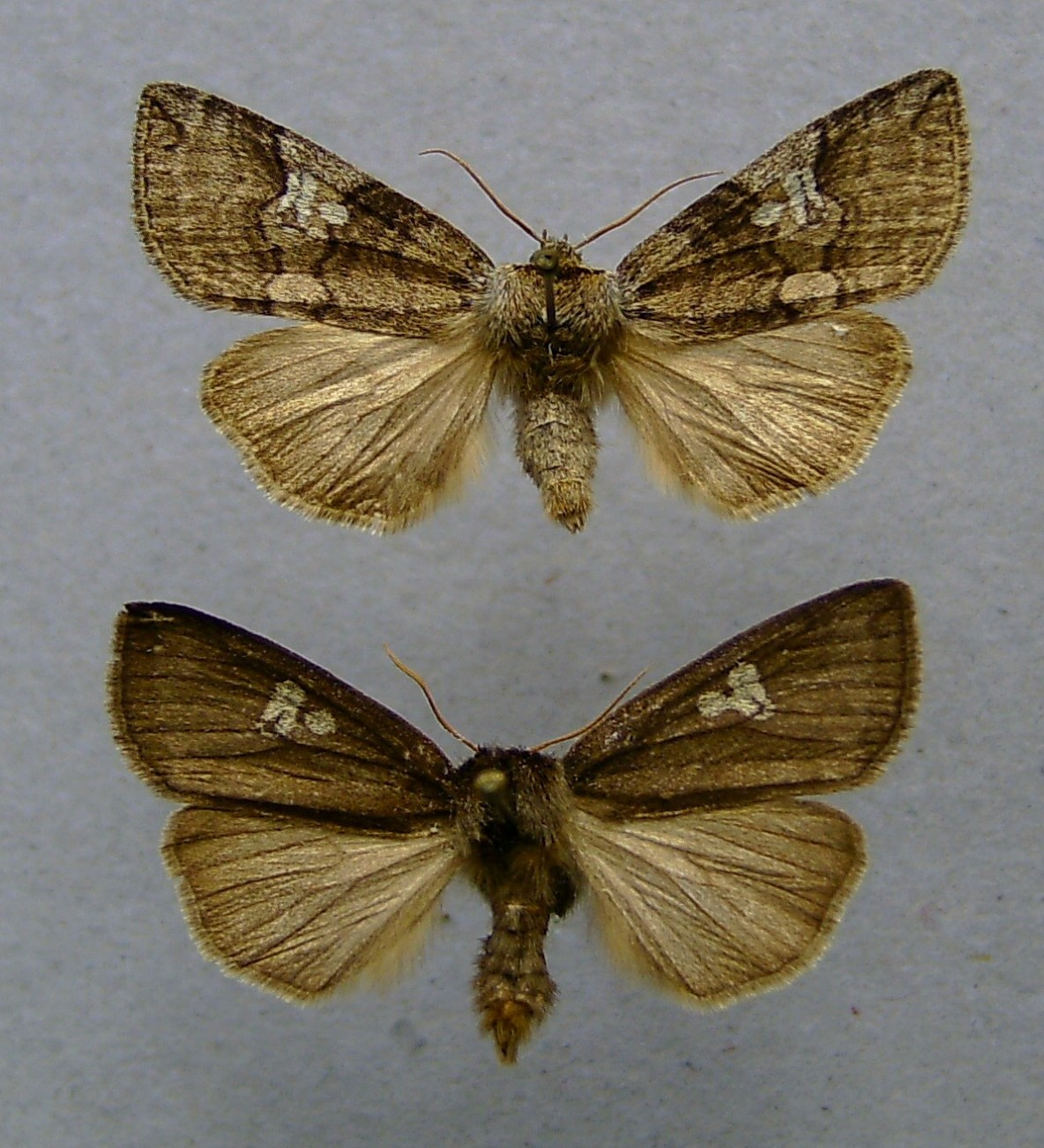 Tethea or